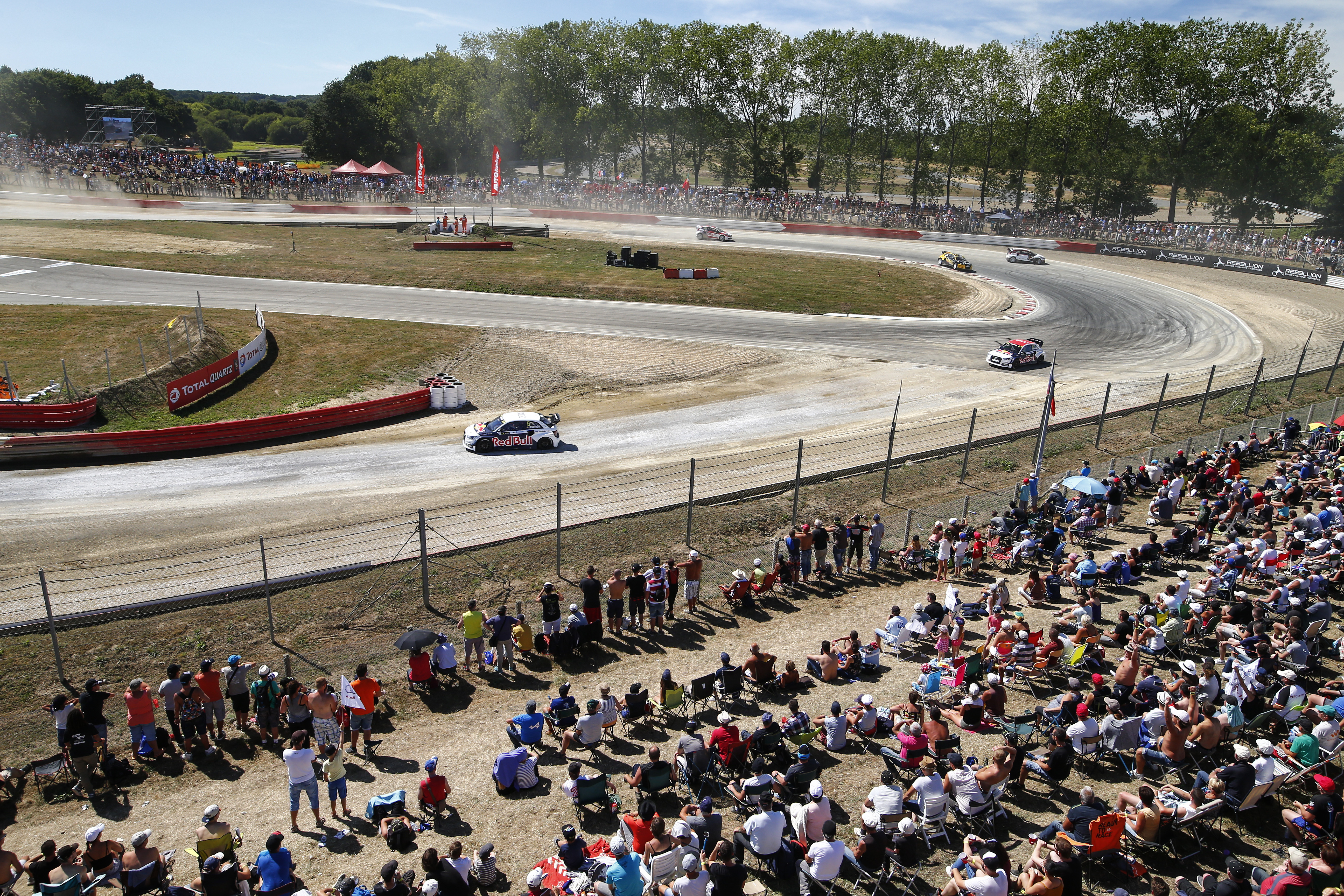 2016 FIA World RX Rallycross Championship / Round 08, Loheac, France, September 2-4 2016 // Worldwide Copyright:Tony Welam/EKS/McKlein